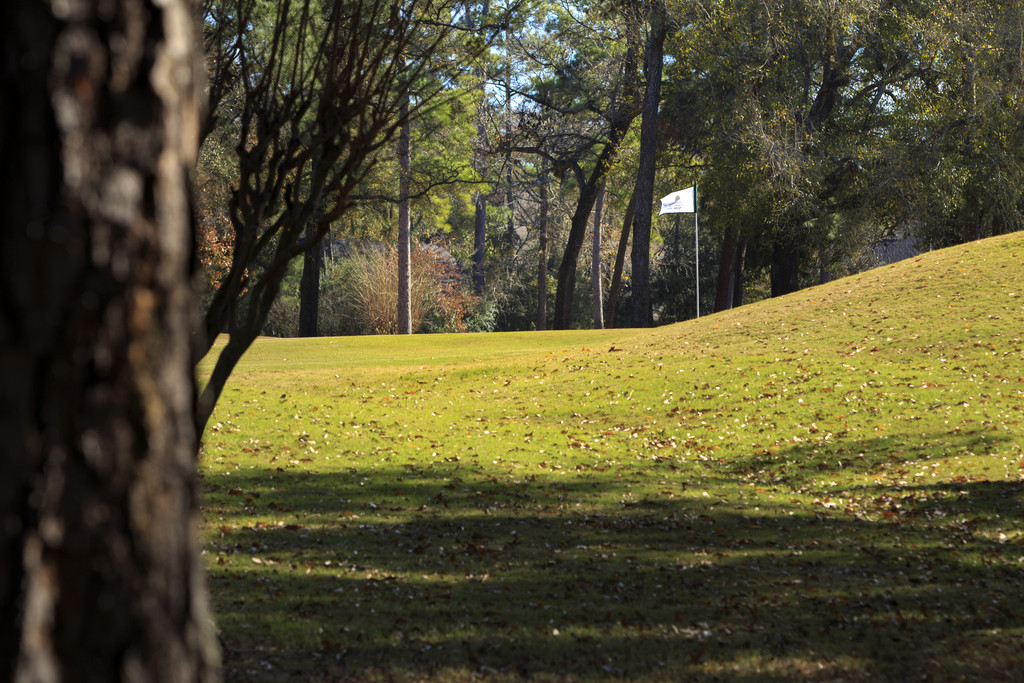 The 5th Hole of the Tournament Golf Course in The Woodlands, Texas.